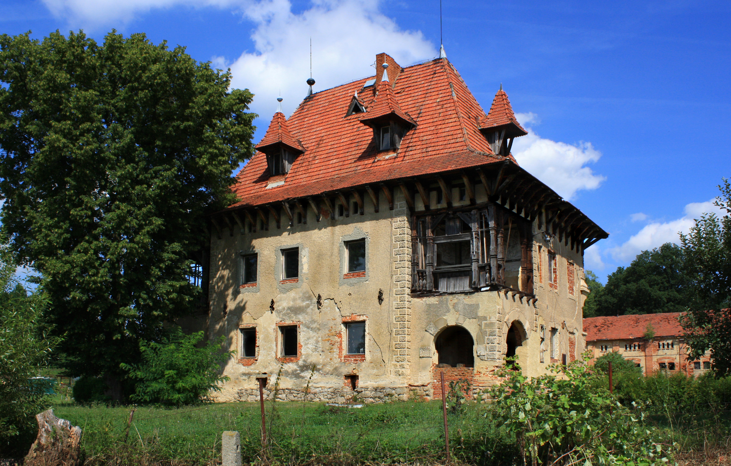 Nový Dvůr castle in Okrouhlá, Czech Republic